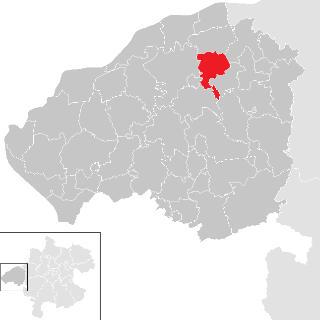 district Braunau am Inn